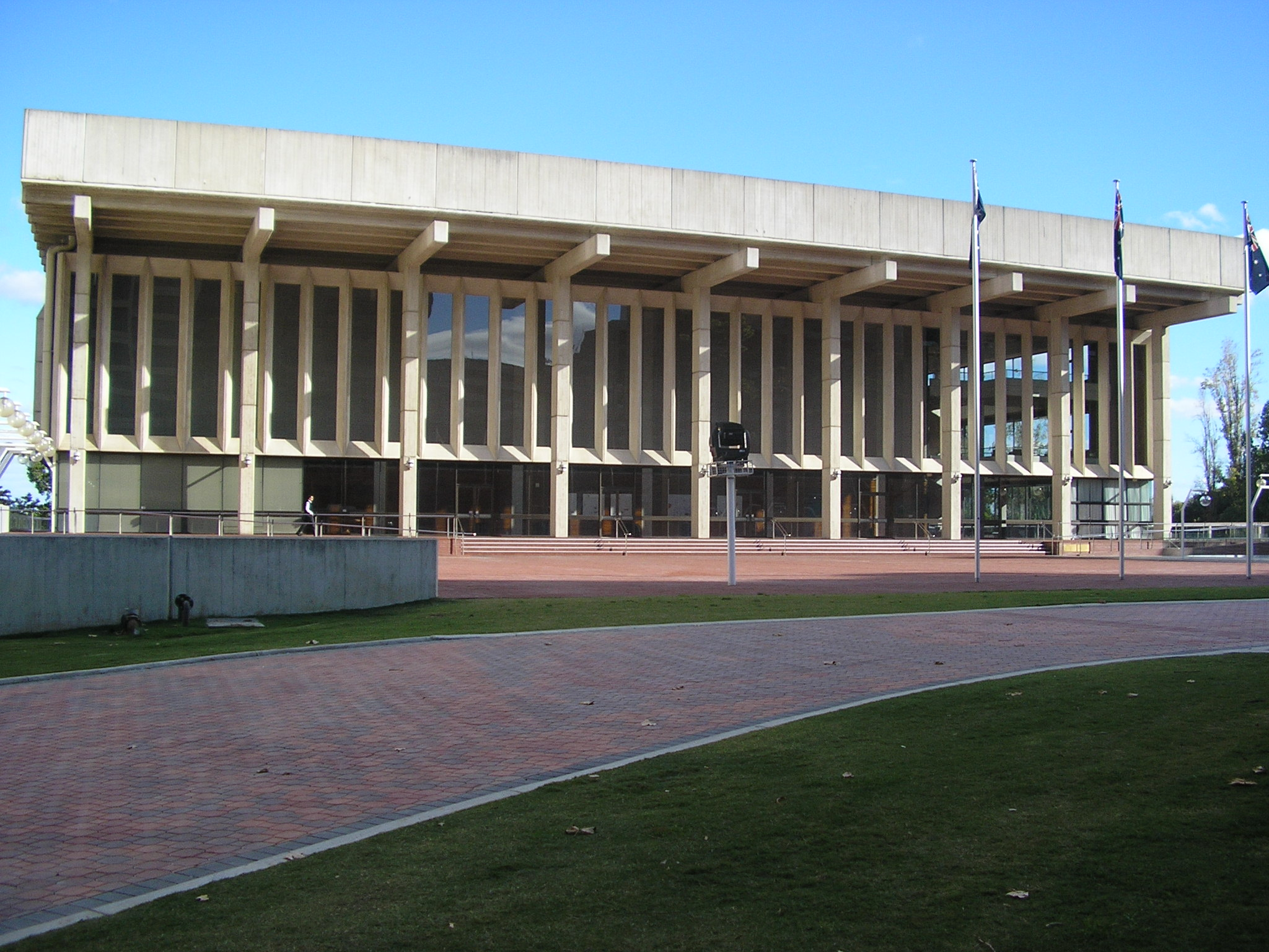 Perth Concert Hall, St George's Terrace, Perth WA. Taken by Ali_K in May 2006.